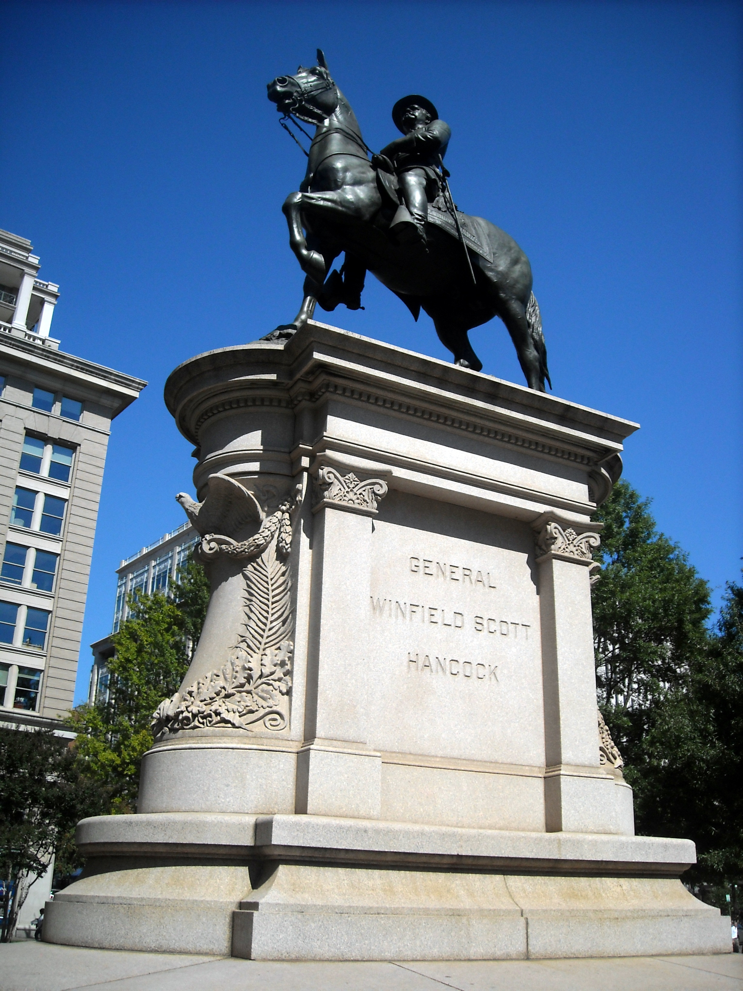 The General Winfield Scott Hancock Memorial located at 7th Street and Pennsylvania Avenue, NW in the Penn Quarter neighborhood of Washington, D.C. The sculptor was Henry Jackson Ellicott and the architect was Paul J. Pelz. The memorial was dedicated on May 12, 1896.